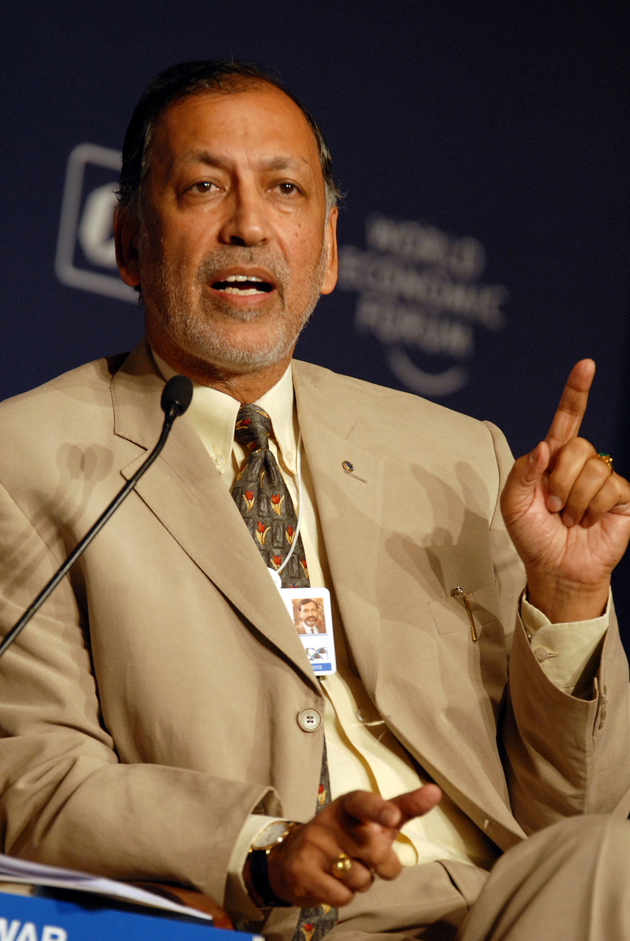 Rajendra S. Pawar, Indian businessman, participates in a panel discussion about rural workforce at the World Economic Forum's India Economic Summit 2008 in New Delhi, India.